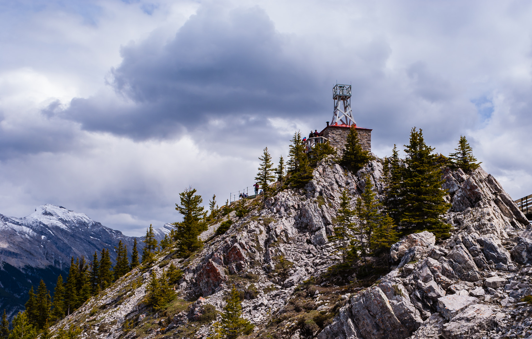 500px provided description: Summer 2016 in Banff Sulphur Mountain Cosmic Ray Station National Historic Site [#Canada ,#Banff ,#Banff national park ,#National Historic Site ,#Kanada ,#Rocky mountains ,#Sulphur Mountain ,#Sulphur Mountain Cosmic Ray Station ,#Sulphur Mountain Cosmic Ray Station National Historic Site]